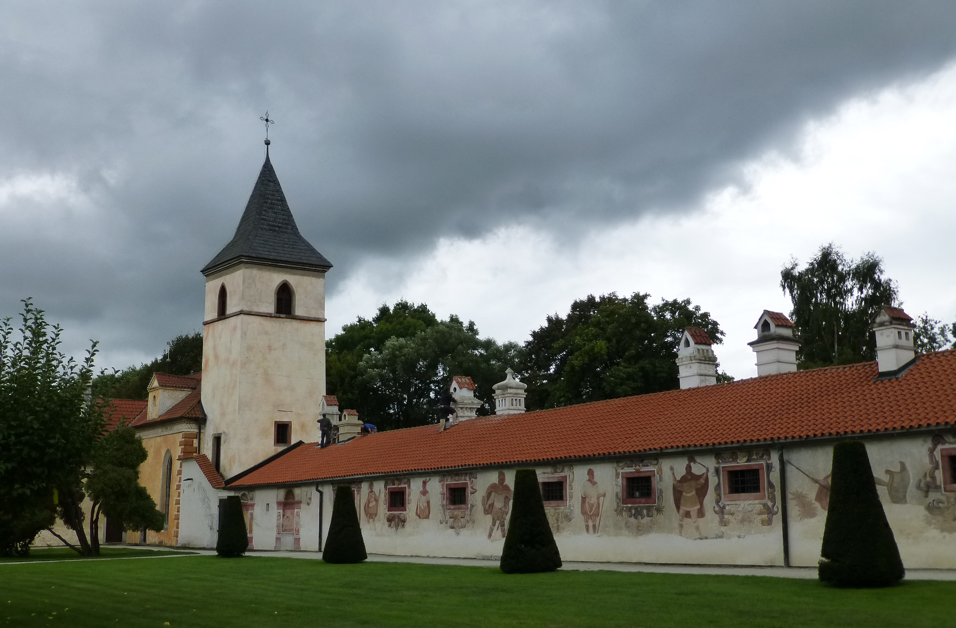 Frescoes on the interior wall, renaissance castle of Kratochvile, erected 1581-1589 by the Eggenberg family, Bohemia.